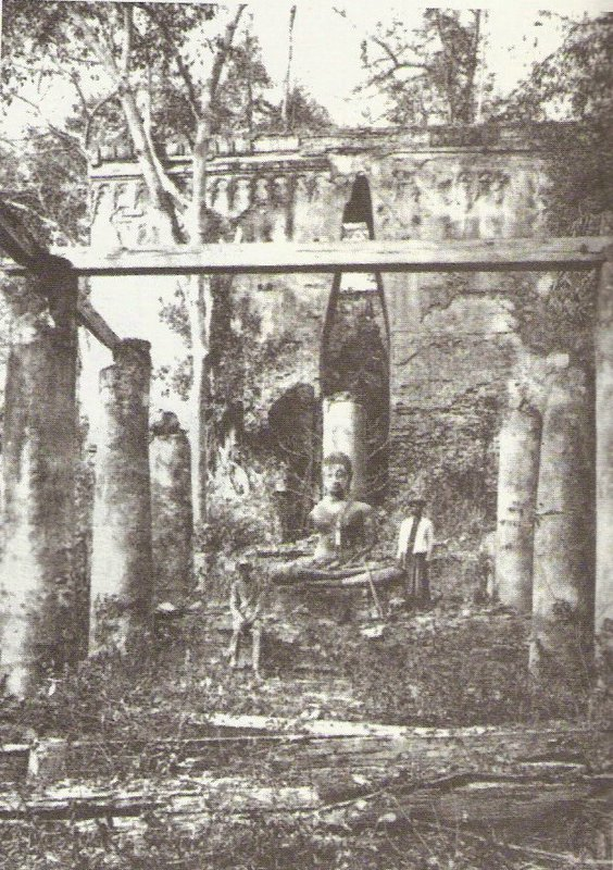 Wat Si Chum in Sukhothai historical park, Sukhothai province, Thailand. The Buddha statue was originally in a roofed building.Sukhothai ,Thailand.